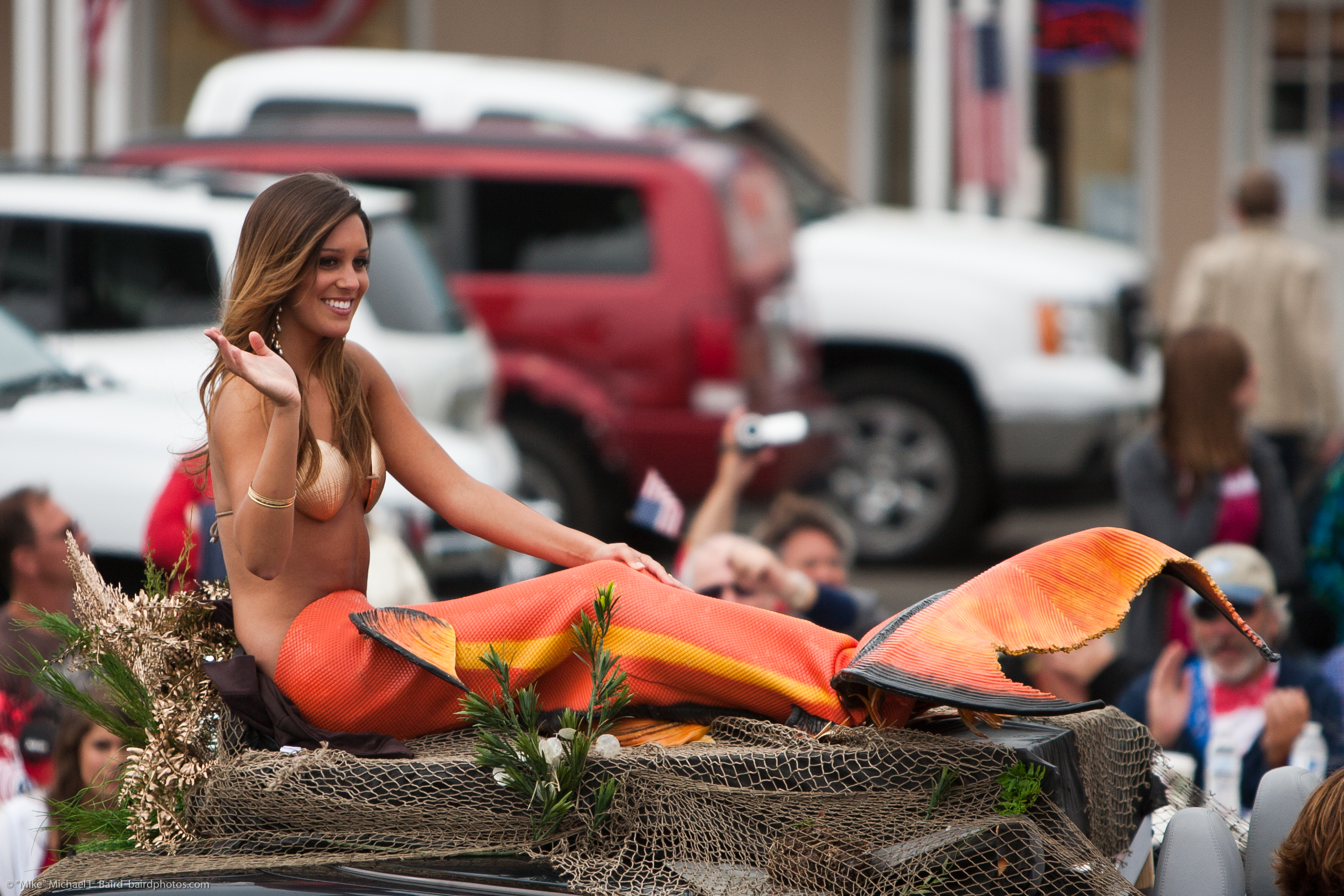 July 4th 2010 Parade in Cayucos, CA - an exhibition of Americana Patriotism Central Coast California Culture with few peers.